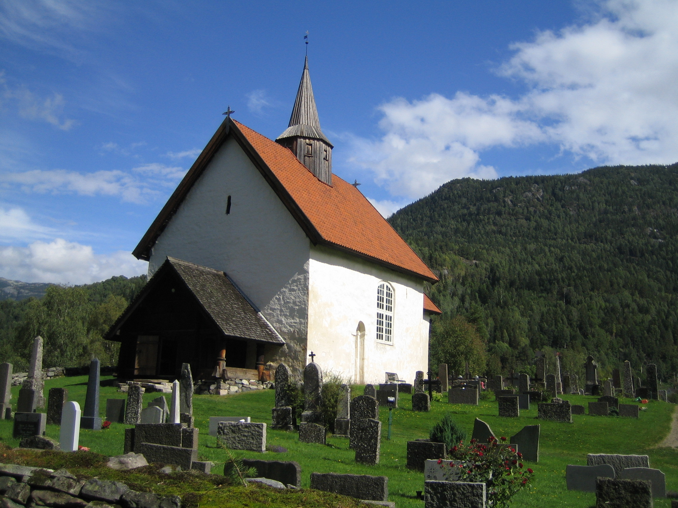 Seljord Church